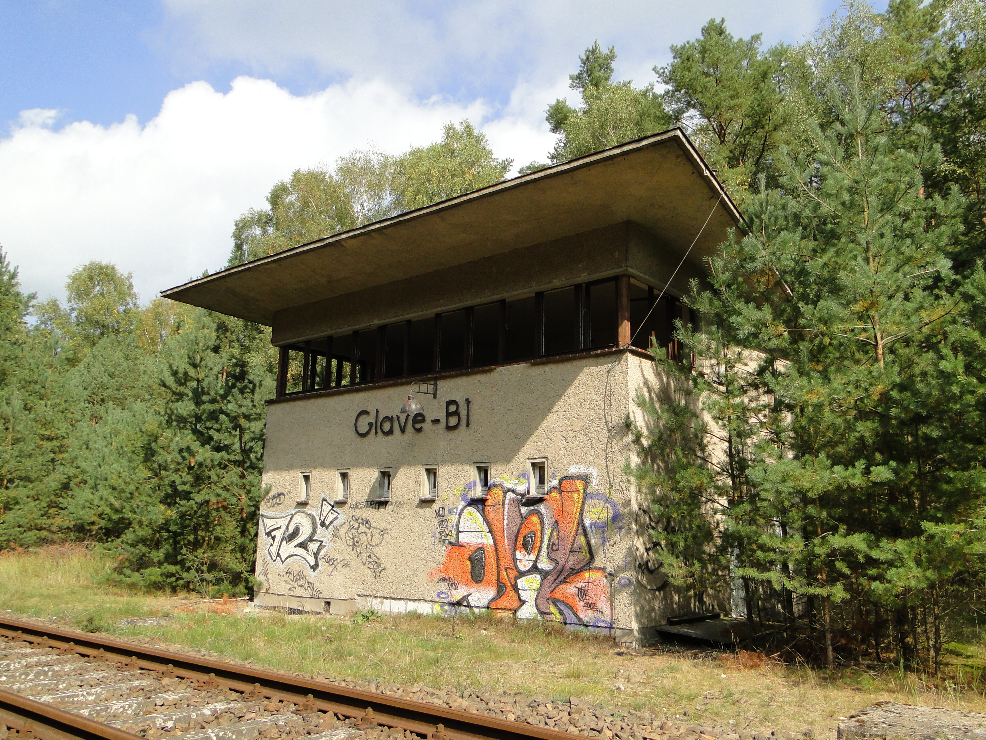 Former signal box B1 at the Güstrow-Meyenburg railway line near Glave, district Rostock, Mecklenburg-Vorpommern, Germany